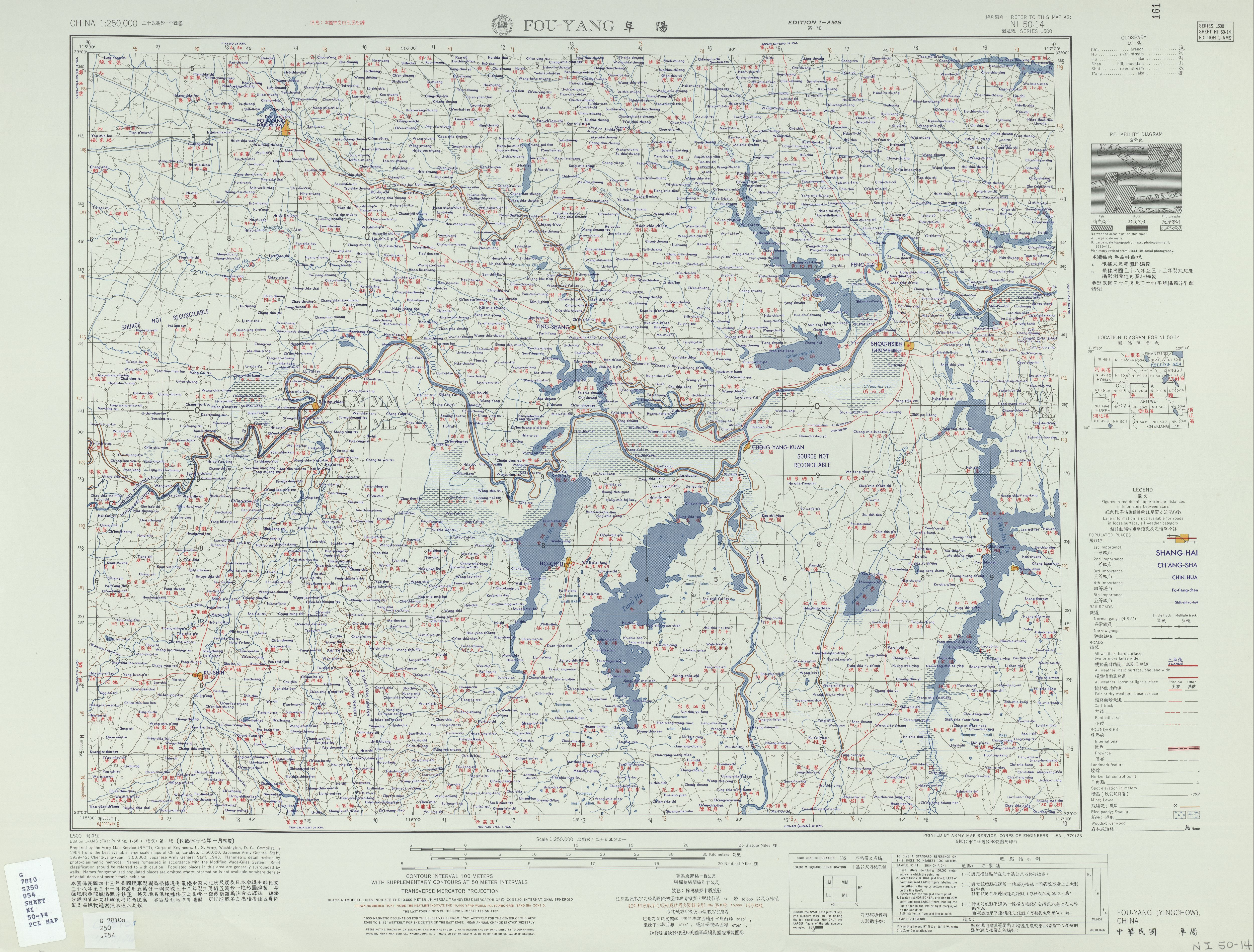 China AMS Topographic Maps